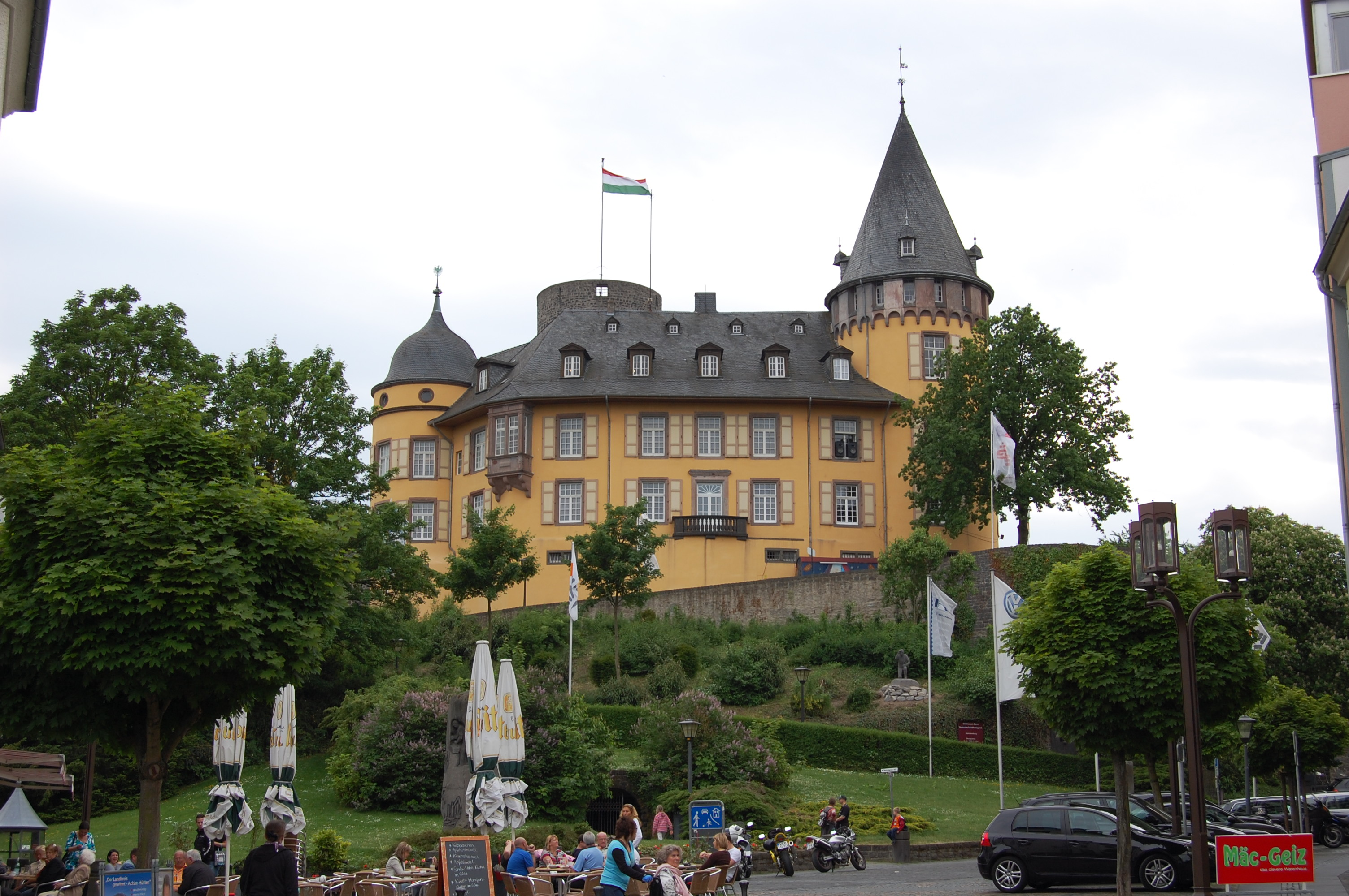 The Genoveva castle in Mayen.